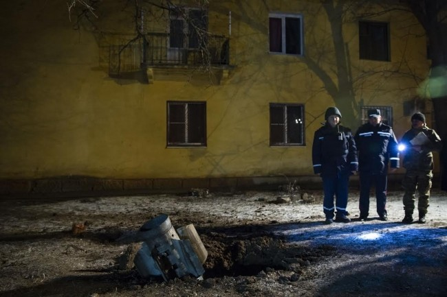 Petro Poroshenko's visit to Kramatorsk after the rocket attack by terrorists from DPR on the 10th of February 2015